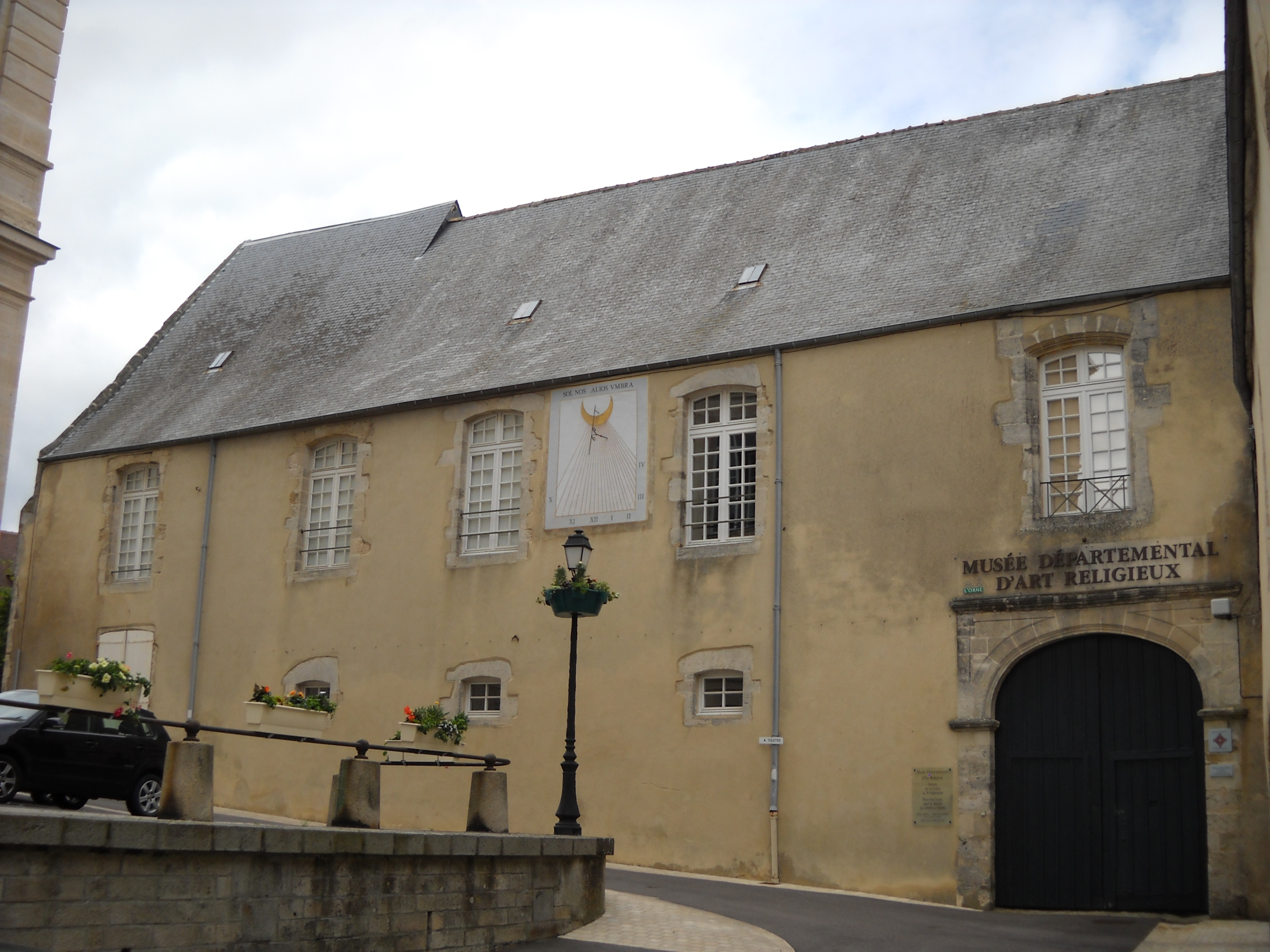 Museum of religious art, in Sées, Orne, France.